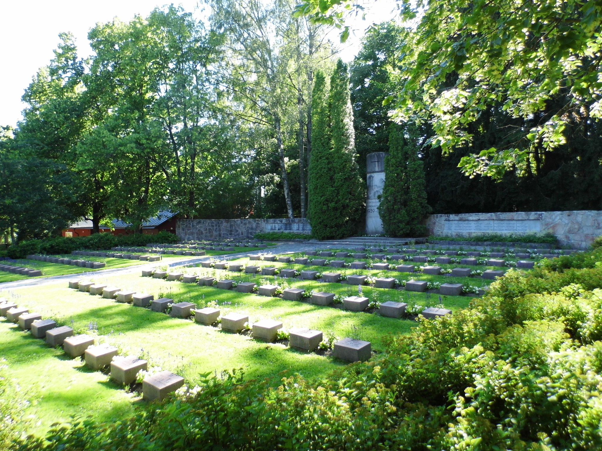 Military cemetary at church in Espoo, Finland